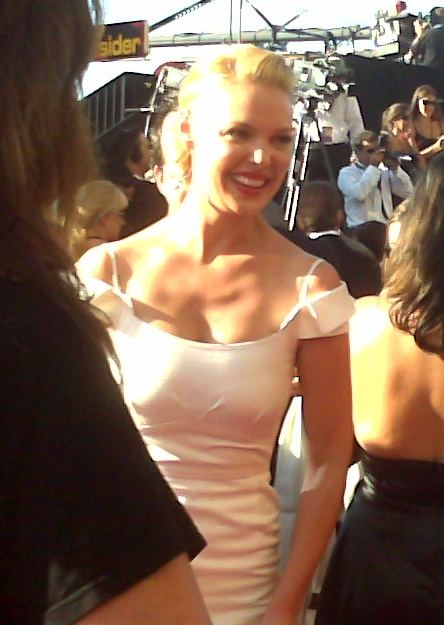 Actress Katherine Heigl arrives at the 59th Annual Emmy Awards.